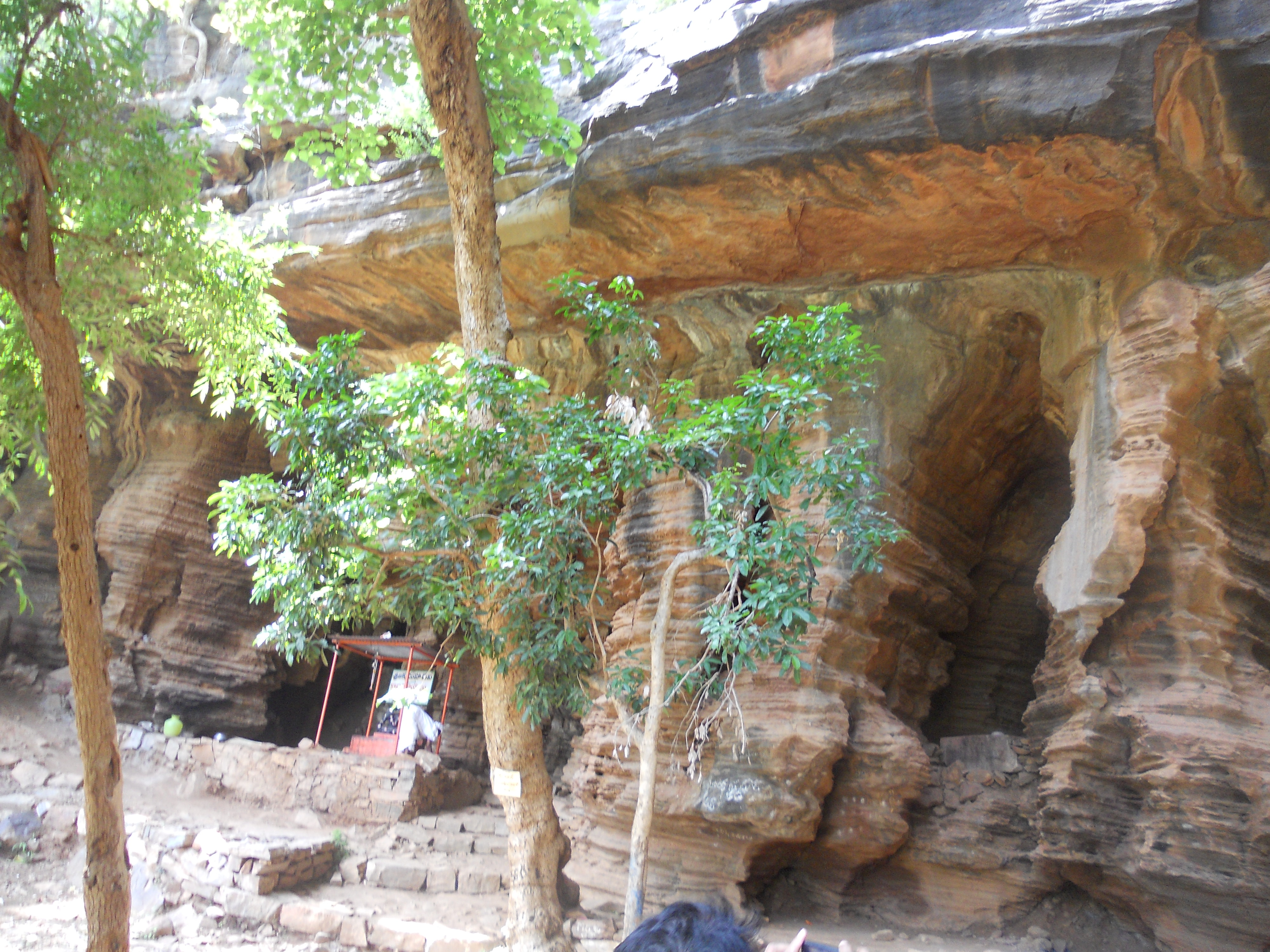 Akka maha devi caves, srisailam